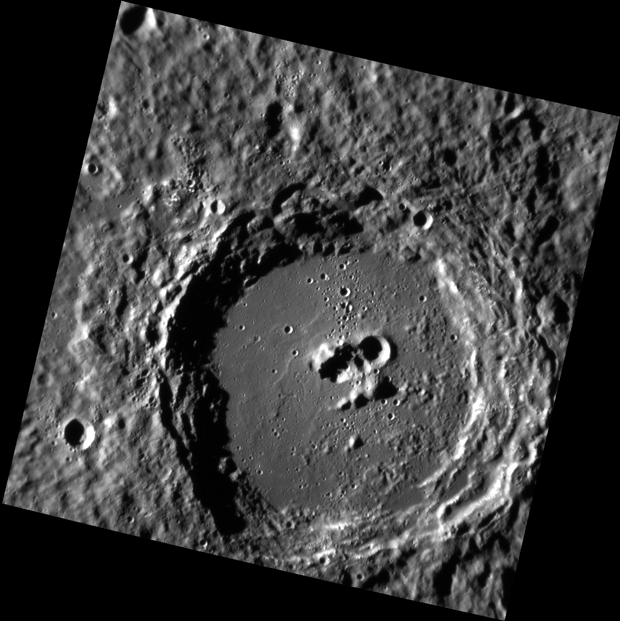 Date acquired: July 24, 2012 Image Mission Elapsed Time (MET): 251577944 Image ID: 2256593 Instrument: Narrow Angle Camera (NAC) of the Mercury Dual Imaging System (MDIS) Center Latitude: -52.20° Center Longitude: 125.3° E Resolution: 142 meters/pixel Scale: Neruda crater is 112 km (69 mi) in diameter Incidence Angle: 80.4° Emission Angle: 2.4° Phase Angle: 78.0° Of Interest: Today's image features Neruda crater, named for the Chilean poet Pablo Neruda. The crater exhibits several central peaks punctuated by a more recent, small crater, resulting in a rugged profile of ups and downs if one were to traverse the crater floor. Similarly, the crater's namesake Neruda experienced a number of ups and downs in his life, from success as a poet, through poverty, war and ultimately alleged poisoning. This image was acquired as a high-resolution targeted observation. Targeted observations are images of a small area on Mercury's surface at resolutions much higher than the 200-meter/pixel morphology base map. It is not possible to cover all of Mercury's surface at this high resolution, but typically several areas of high scientific interest are imaged in this mode each week.